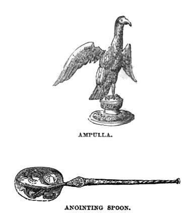 Crown Jewels / The Spoon and Ampulla